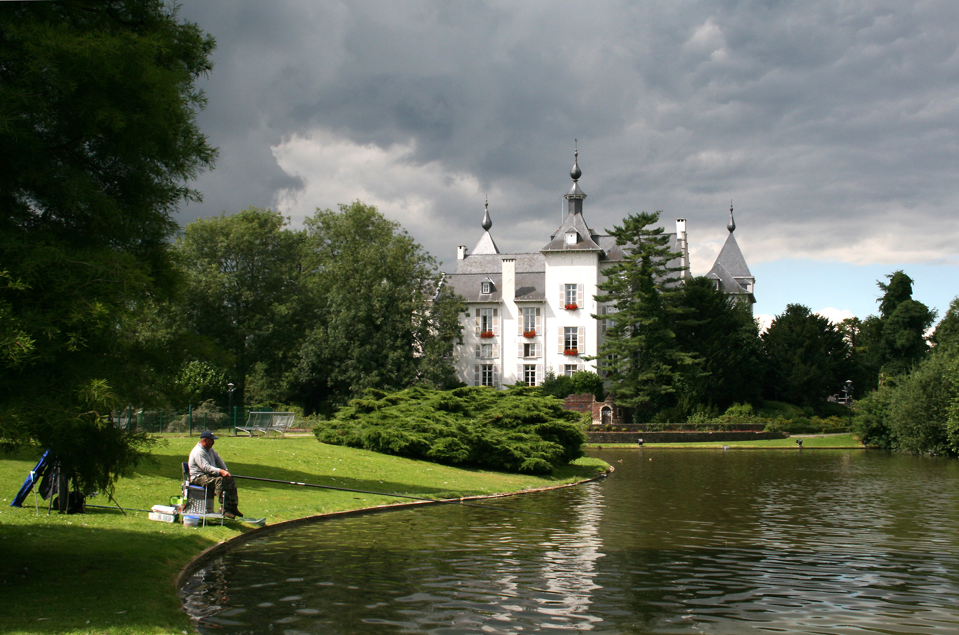 Wemmel Belgium, the town hall (XVII/XVIIIth centuries).